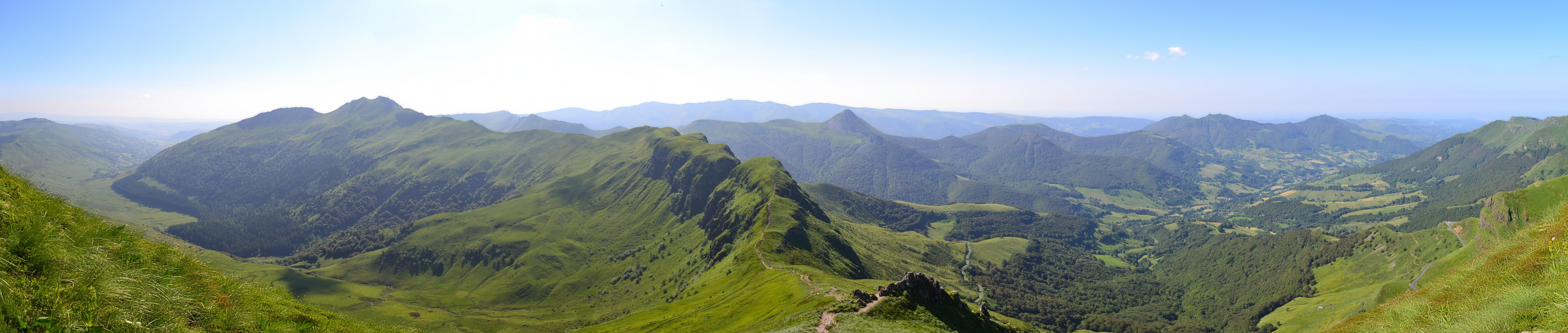 View on Breche de Rolland and Puy Griou, on the GR 4 hiking route.